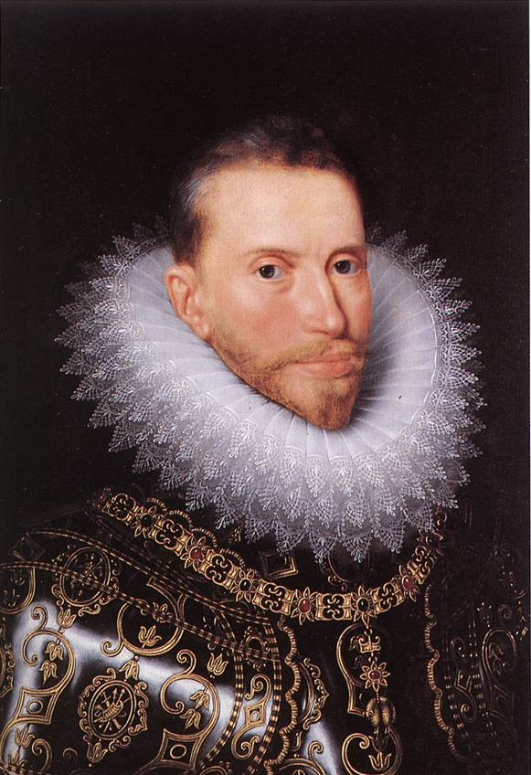 Isabella Clara Eugenia of Spain (12 August 1566 – 1 December 1633) was Infanta of Spain, Archduchess of Austria and the joint sovereign of the Seventeen Provinces. In some sources, she is referred to as "Clara Isabella Eugenia". She was a daughter of King Felipe II. of Spain and Elizabeth of Valois. Her husband was Archduke Albert (Albrecht) VII. of Austria, 16th century, Portraits de l'Archiduc d'Autriche Albert et de l'archiduchesse Isabella Clara Eugenia. Huile sur toile. Chaque tableau mesure 60 x 42 cm. Ils sont conservés au Groeninge Museum, Bruges.